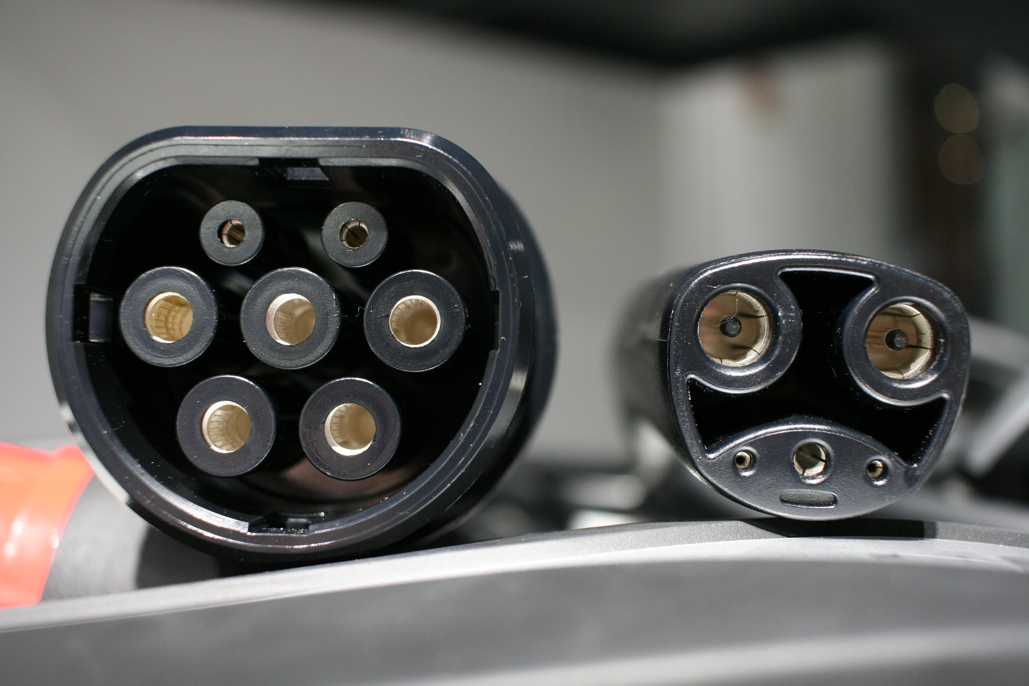 Standardised Tesla IEC Type 2 connector female outlet (used in Europe / Rest of World; left) and proprietary Tesla02 outlet (used in North America; right).